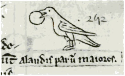 Mediaeval sketch by Matthew Paris in his Chronica Majora (1251) of a Crossbill, Loxia curvirostra, holding a fruit in its beak. He has extended a line of the text into the margin below the drawing, with the Latin words Alaudis parum majores ('a little bigger than Larks').